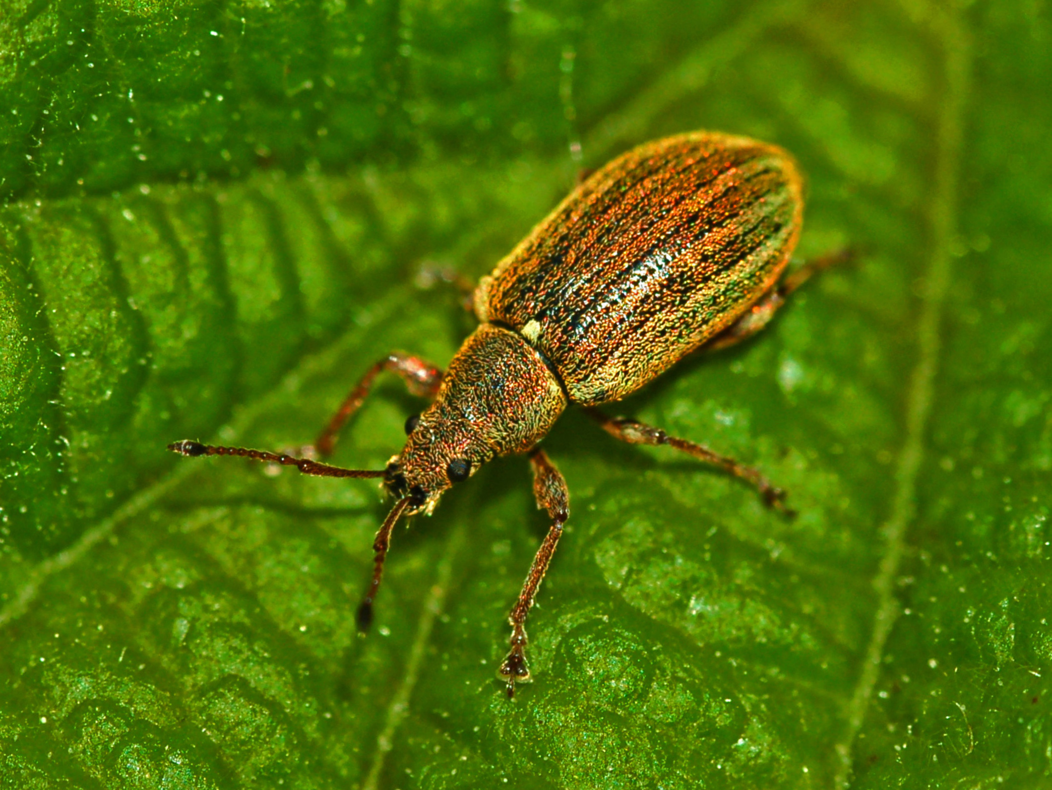 Adult of Phyllobius pyri. Regional Park of Capanne di Marcarolo, Alessandria, Italy